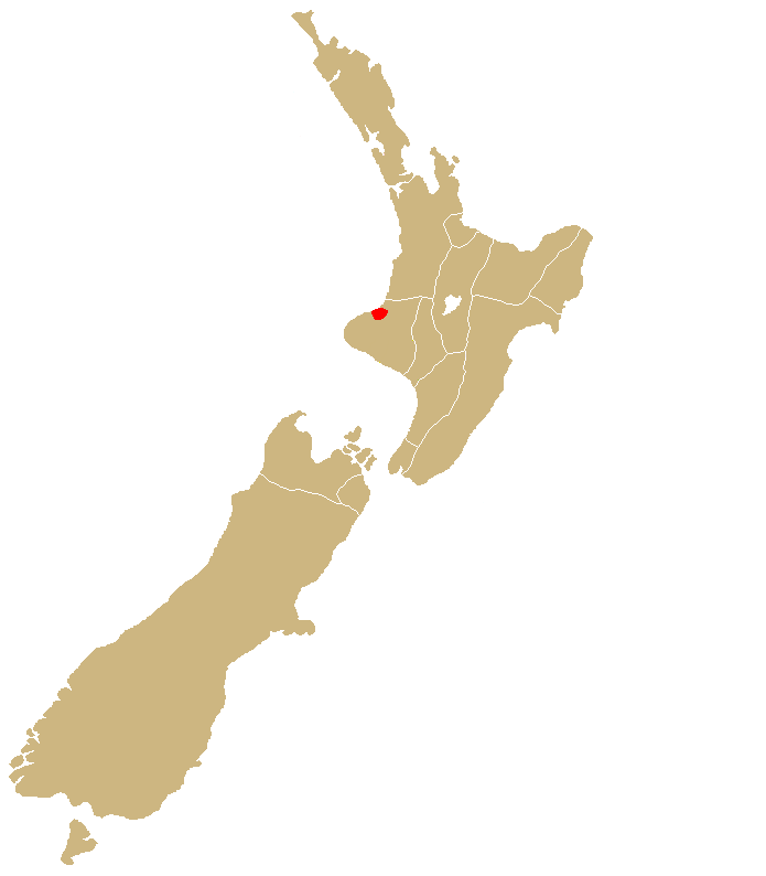 map showing iwi area of Ngati Mutunga